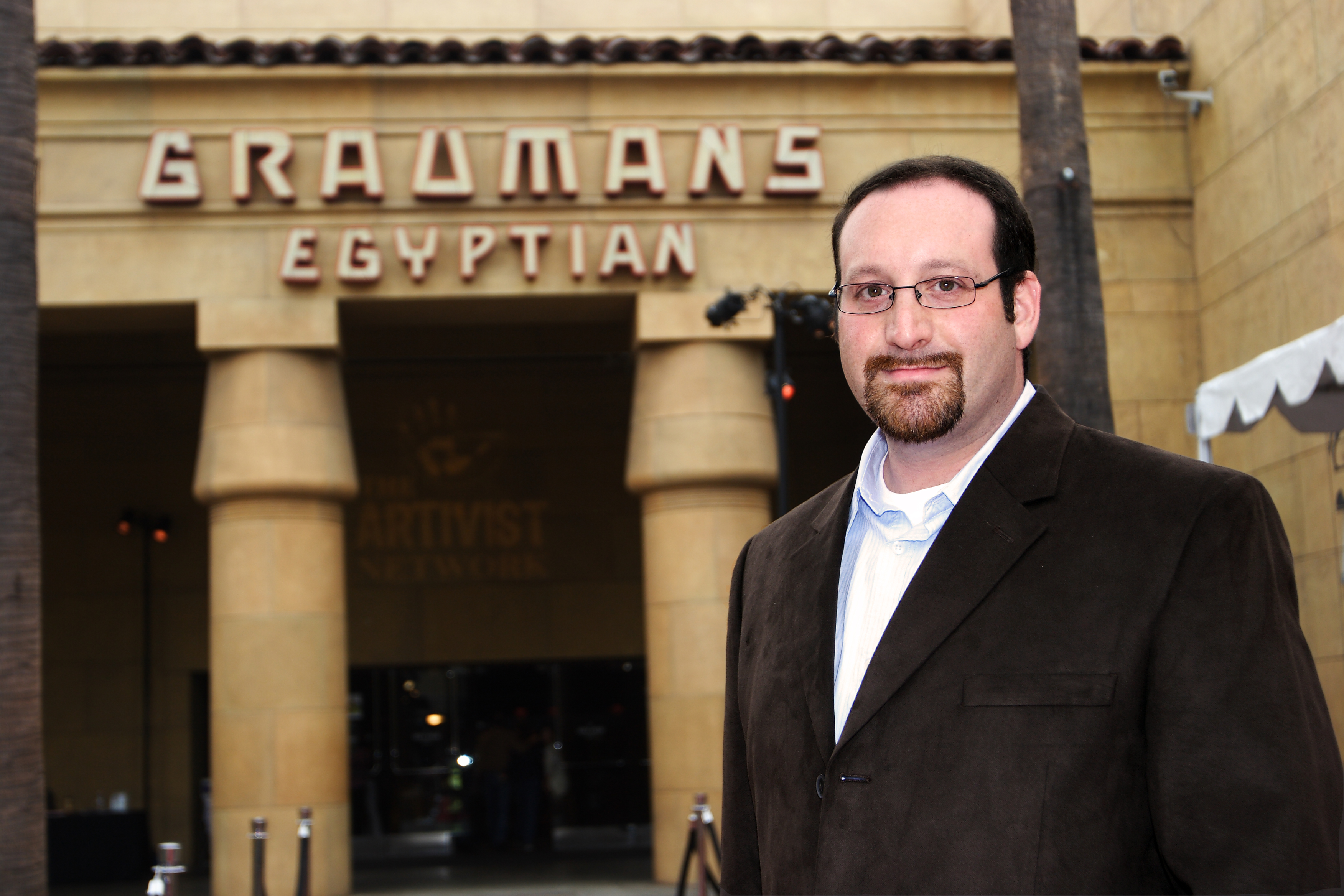 Filmmaker Robert Koenig at the Hollywood premiere of "Returned", during the 2008 Artivist Film Festival & Awards